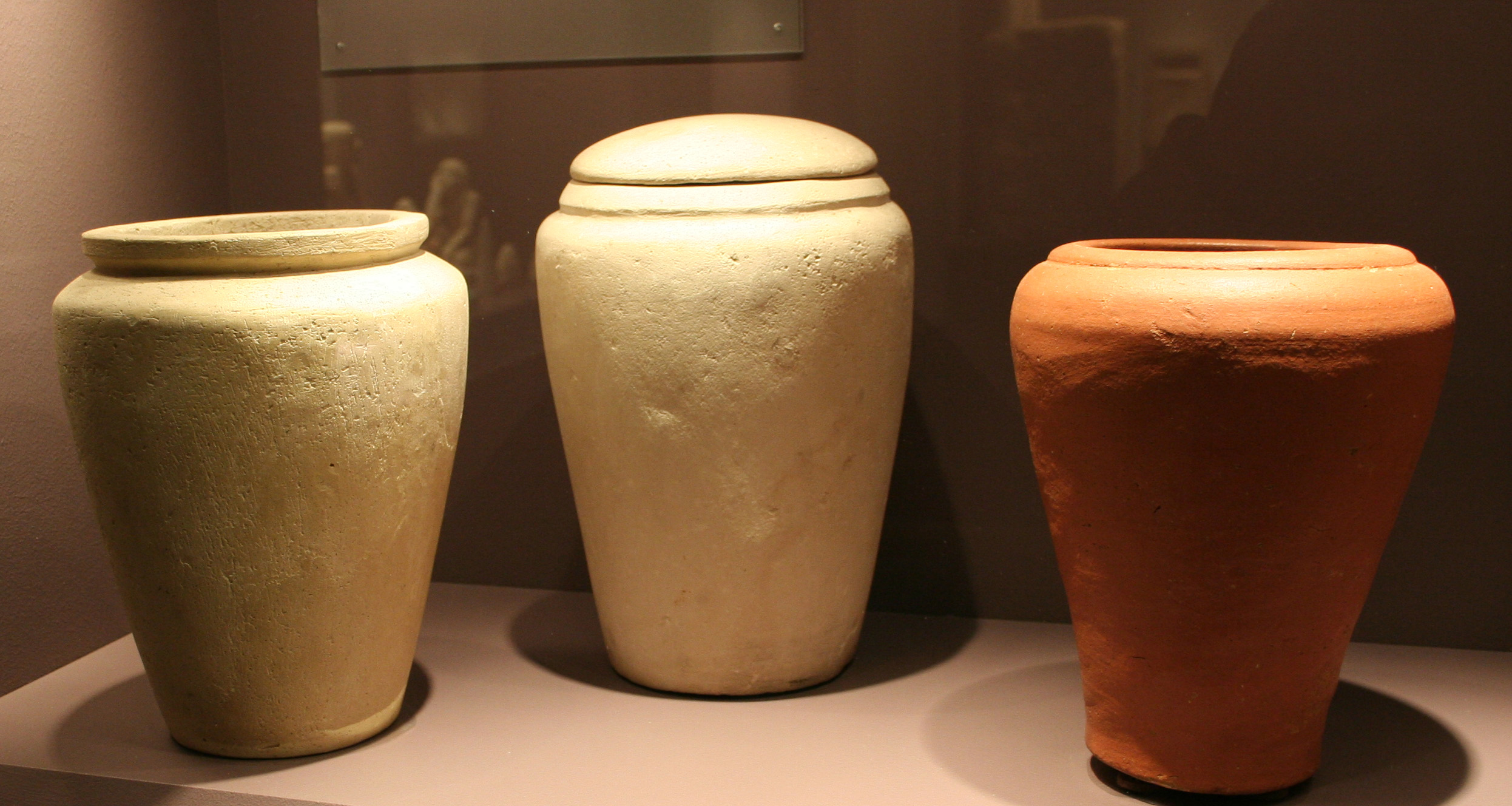 Roemer- und Pelizaeus-Museum, Hildesheim